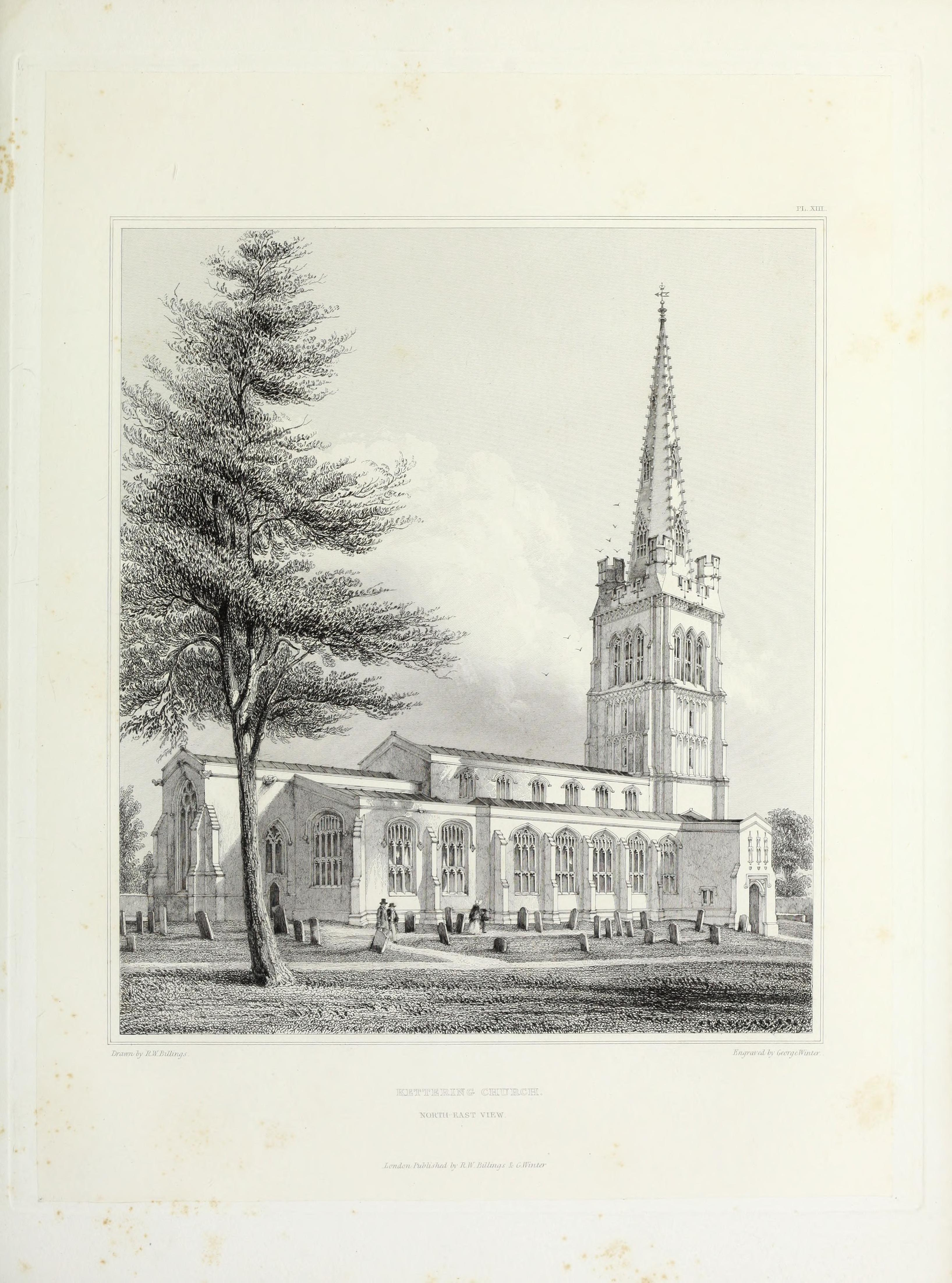 Title: Architectural illustrations of Kettering Church, Northamptonshire Year: 1843 (1840s) Authors: Billings, Robert William, 1813-1874 Winter, George Subjects: Kettering Church Publisher: London, Published by T. and W. Boone for R.W. Billings and G. Winter Text Appearing Before Image: /,■//,/,« ft,/,/,.,/,,;/ In H If htliiH./s X „ IVwm mi ■ n..3rnx. Text Appearing After Image: ■ Noinll IAST VIF.W. Zm&rn VUbUsTud Ar Jl W. dOSngs x CWnter